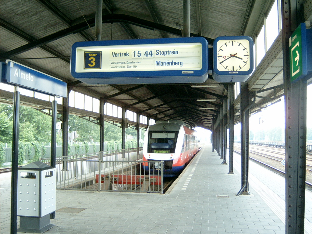 The inside terminus platform of the Almelo train station for the train to Mariënberg